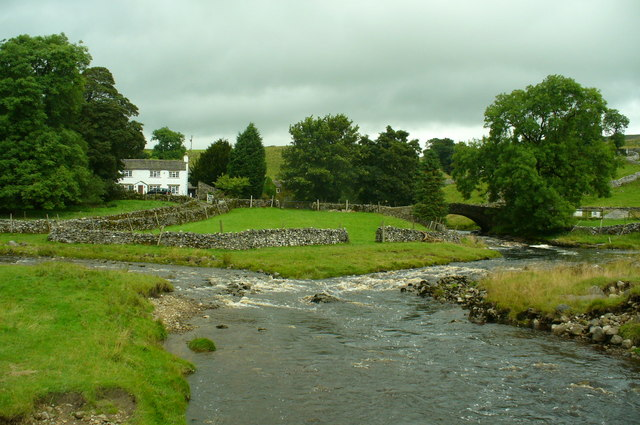 River Wharfe and Green Field Beck merging